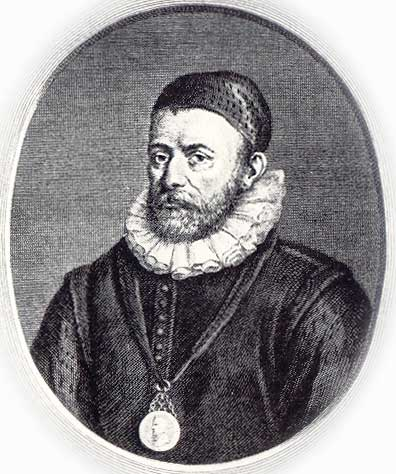 Image of Paulus Buys (1531-1594), Grand Pensionary of Holland from 1572 till 1582